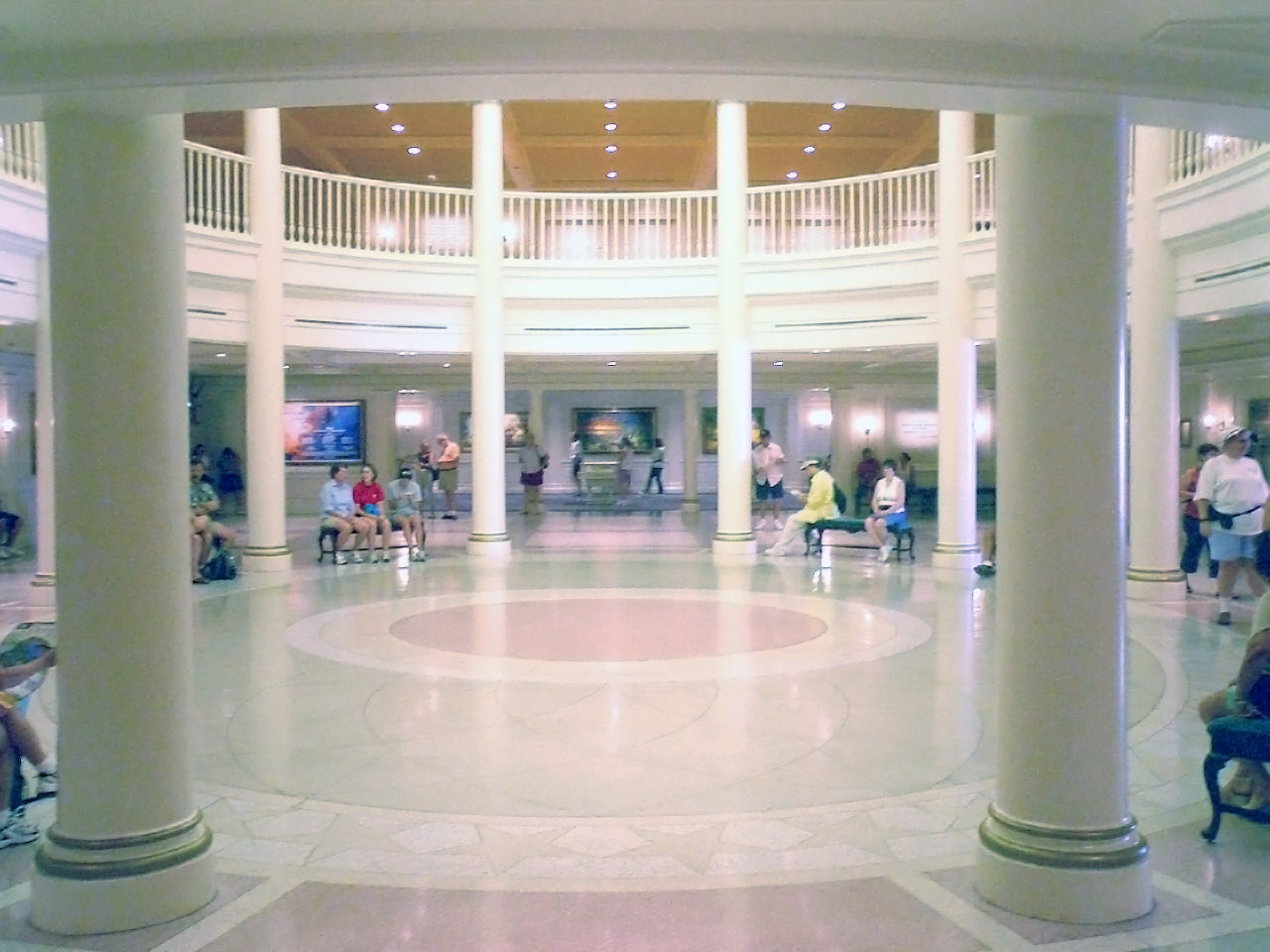 Digital photo taken by Marc Averette